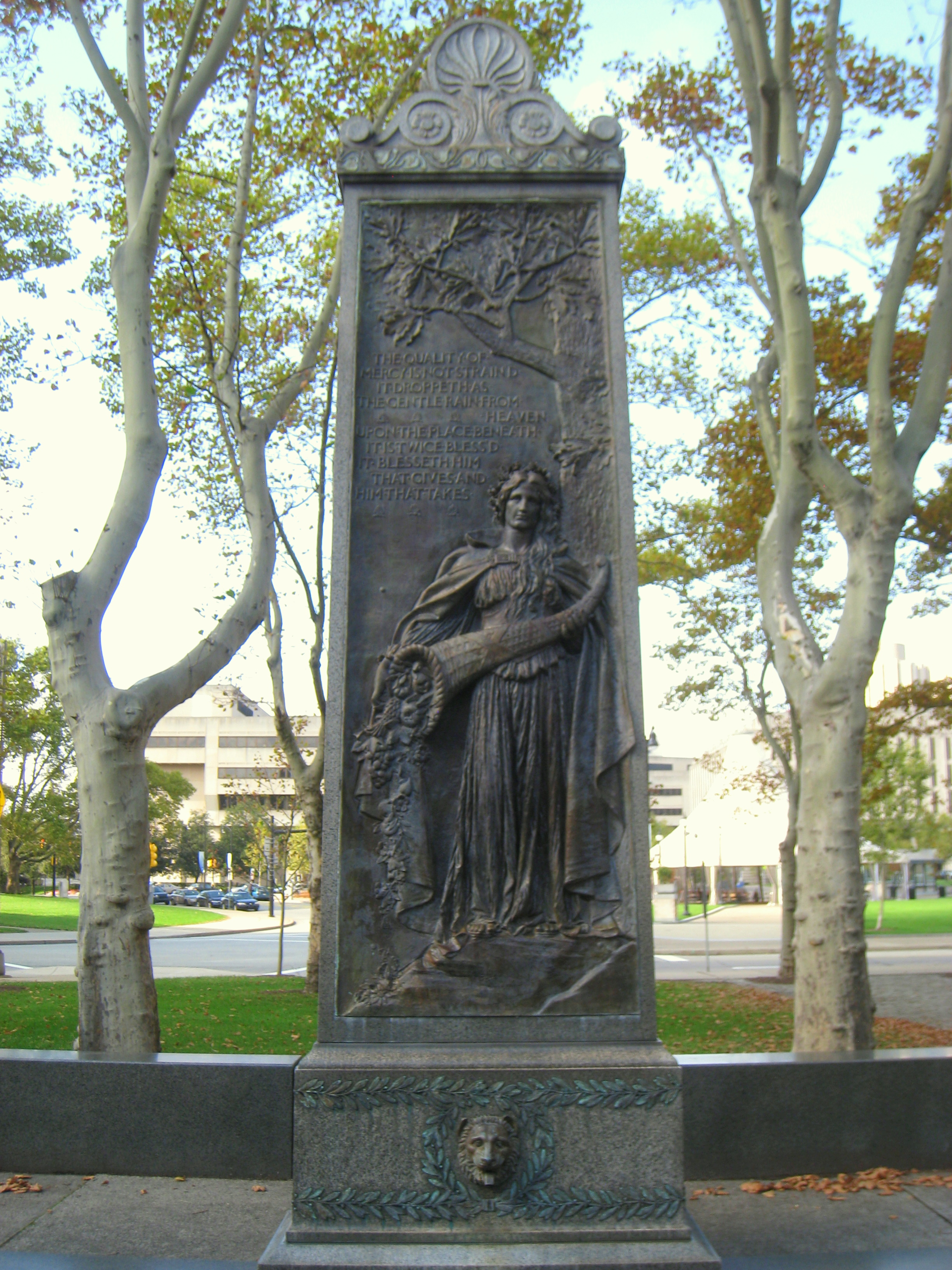 Christopher Lyman Magee memorial, near the Carnegie Library of Pittsburgh, Pittsburgh, Pennsylvania, USA. Sculptor Augustus Saint-Gaudens (1848-1907); dedicated in 1908. Note: this image should be deleted; I have uploaded a sharper image.